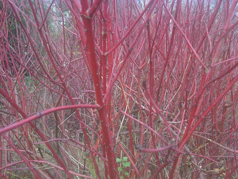 Siberian Dogwood or Red-Barked Dogwood (Cornus alba) in winter at WWT London Wetland Centre, England.